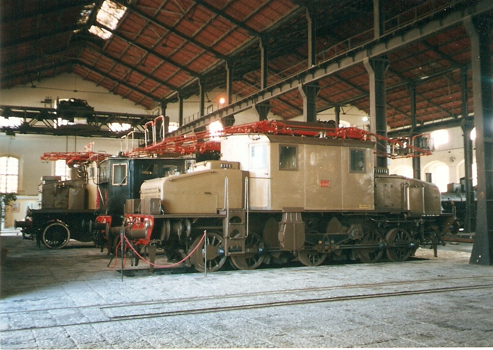 E.551.001 in Pietrarsa railway museum